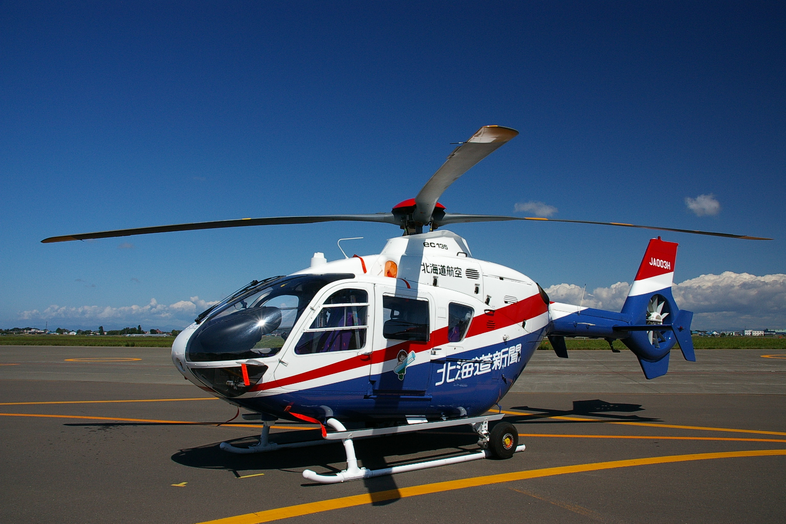 Eurocopter EC135T2, Hokkaido Shimbun Press, Hokkaido Aviation Co.